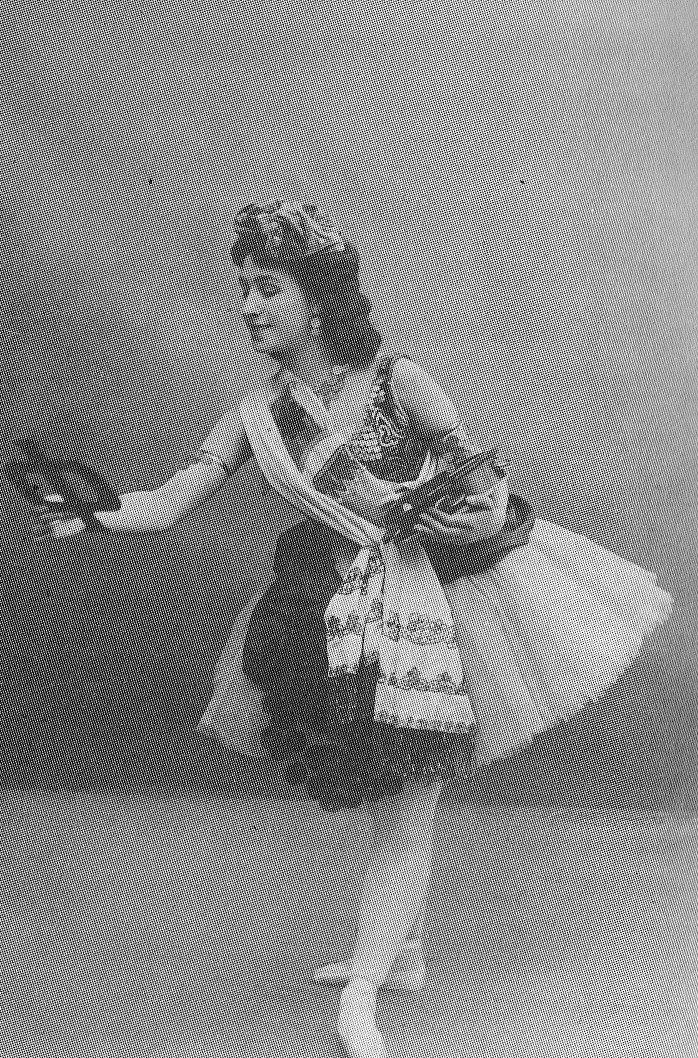 Photographic postcard of Mathilde Felixovna Kschessinskaya (1872-1971), Soloist to His Imperial Majesty and Prima ballerina of the St. Petersburg Imperial Theatres. She is costumed for the title role of the ballet La Esmeralda. Photo comes from own collection and was scanned by me, Mrlopez2681.